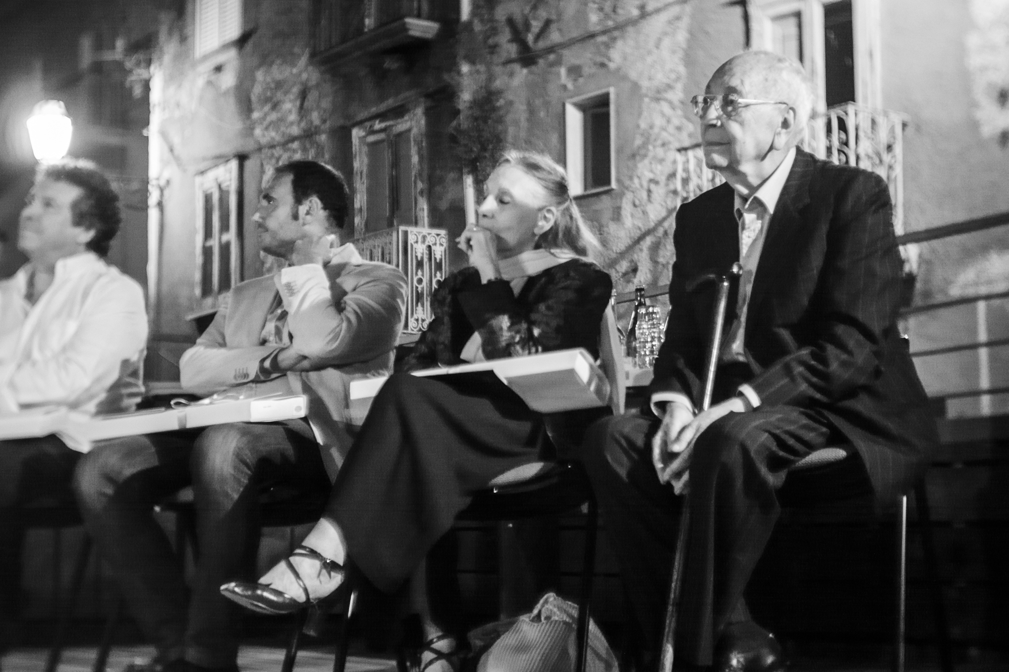 Giacomo Furia in Cairano at the celebration for the 50 years of the movie "La Donnaccia", July 30, 2013